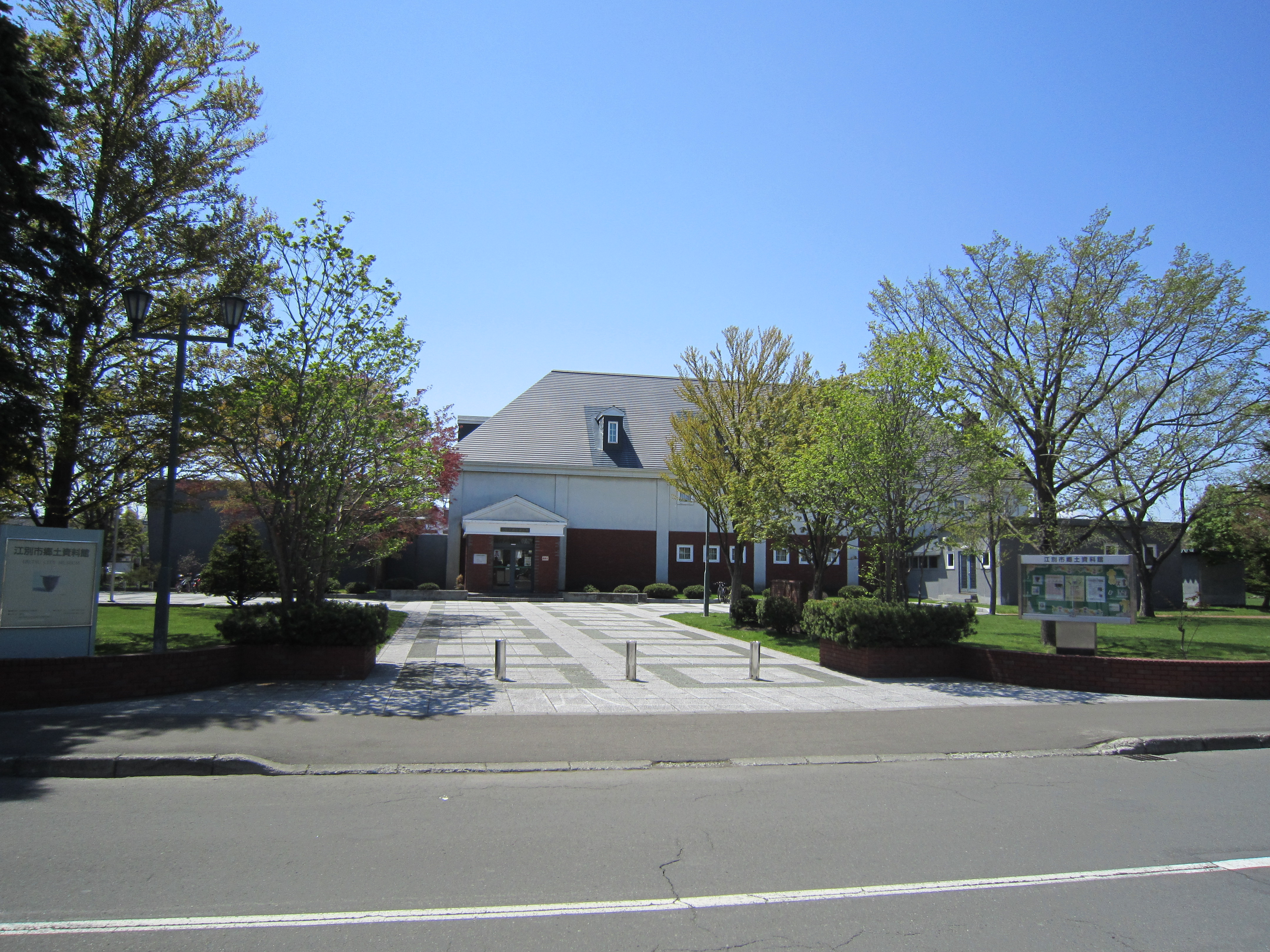 Ebetsu City Local Museum